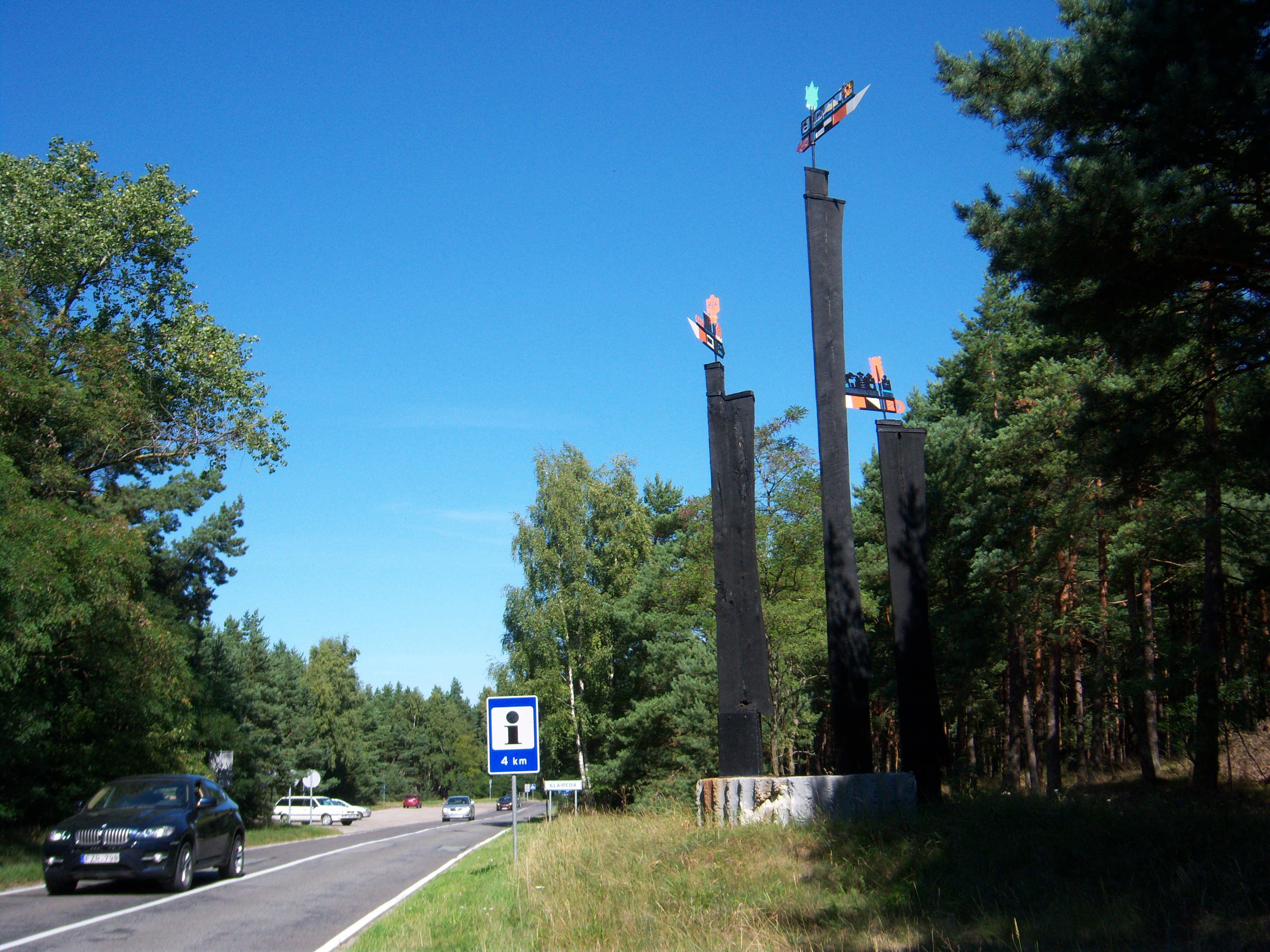 Wooden sculptures „Sales“ with weather vanes, Neringa, Lithuania